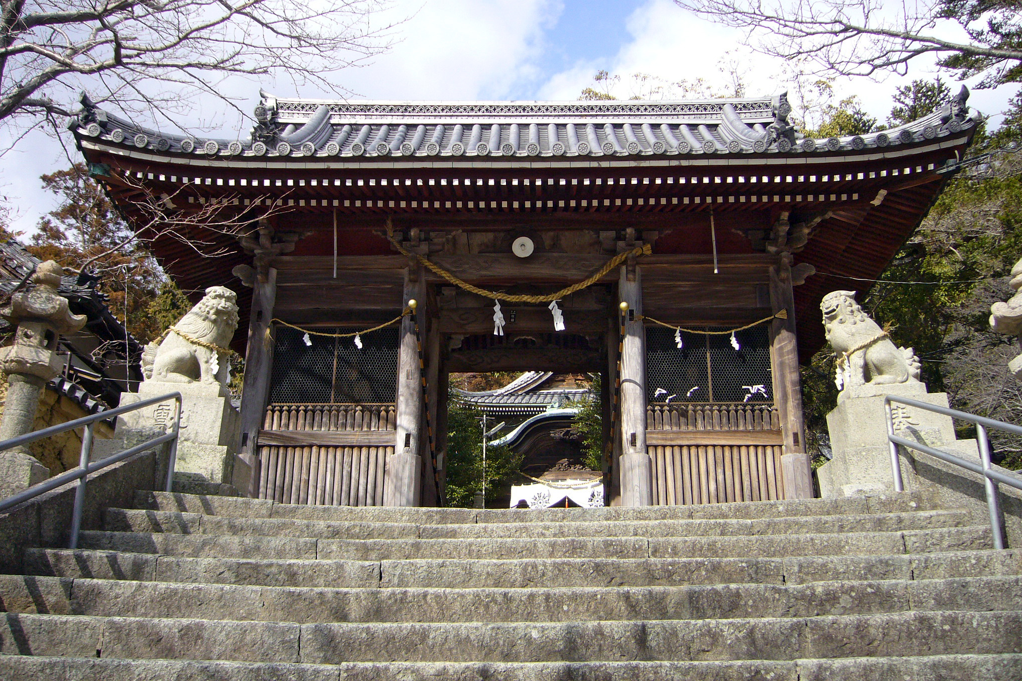 Osake-jinja in Ako, Hyogo prefecture, Japan